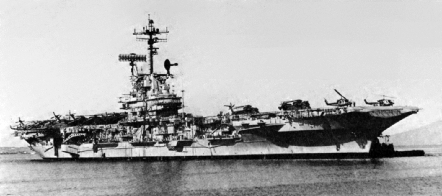 A U.S. Navy aircraft carrier USS Hancock (CVA-19) arrives in Subic Bay, Philippines, on 3 May 1975. Hancock was employed as a helicopter carrier during "Operation Frequent Wind", and was loaded with Vietnamese refugees from Saigon. This happened during Hancock´s last deployment from 18 March to 20 October 1975 before her decomissioning on 30 January 1976.